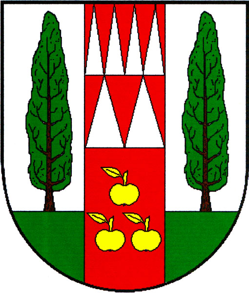 Municipal coat of arms of Topolany village, Vyškov District, Czech Republic.